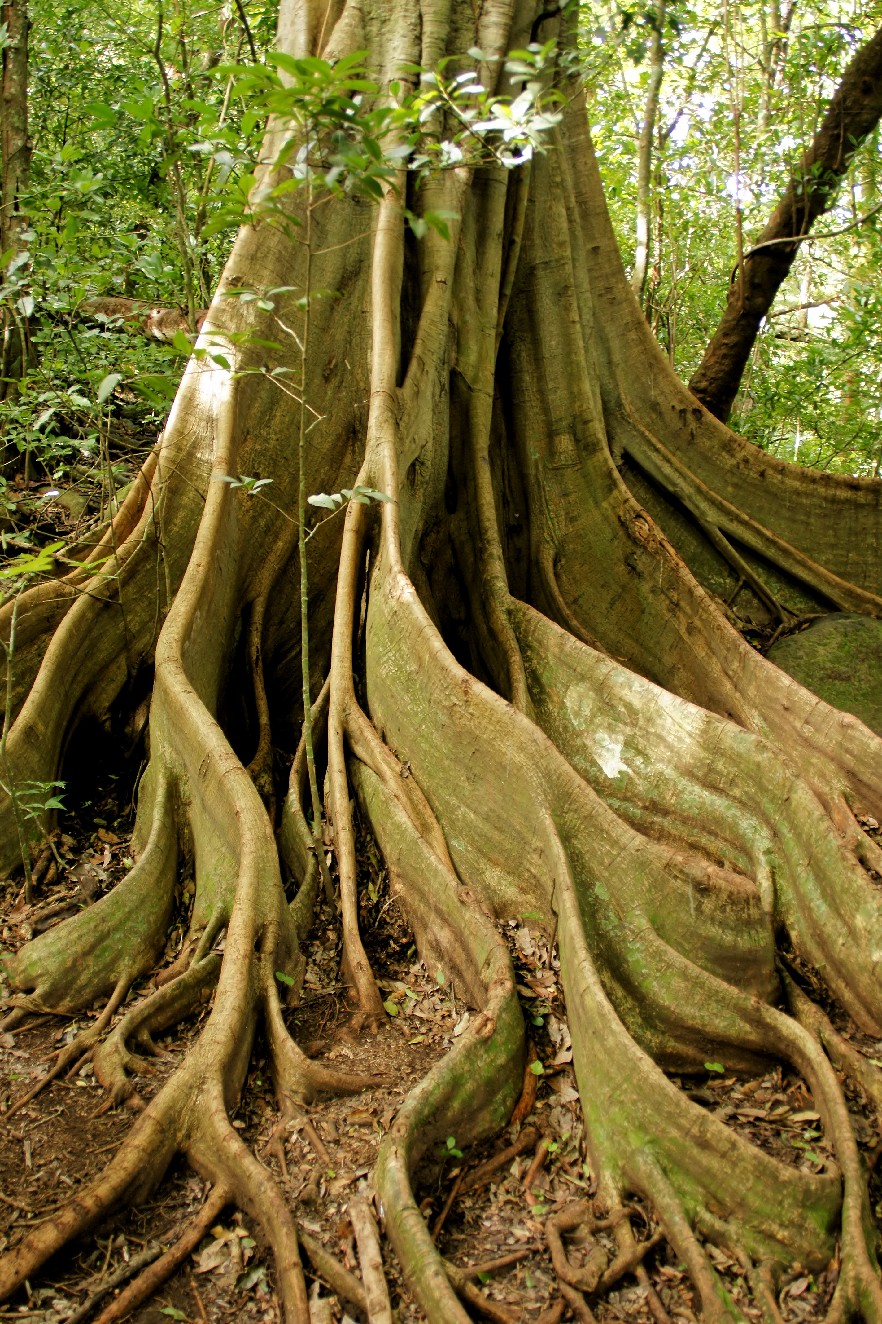 Strangler fig butresses at Rincon de la Vieja, Costa Rica